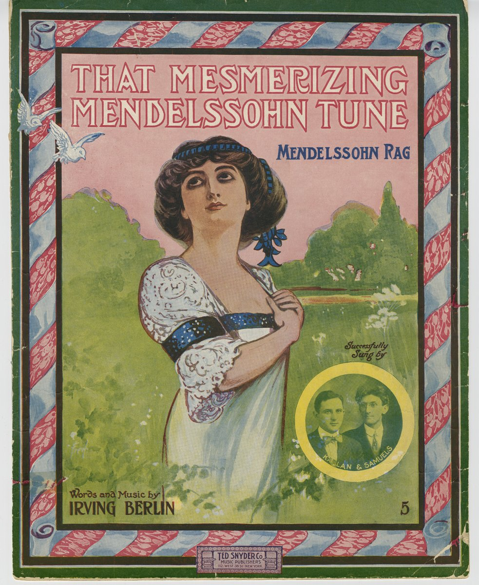 "That Mesmerizing Mendelssohn Tune" (sheet music) page 1 of 5